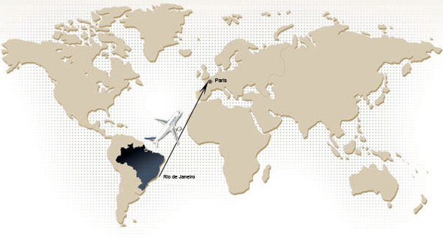 Agência Brasil: An Air France Airbus A330-200 disappeared while over the Atlantic Ocean. The aircraft had 216 passengers and 12 crew members on board.